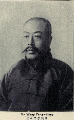 Wang Yongjiang, Minyuan (1872 - 1927)